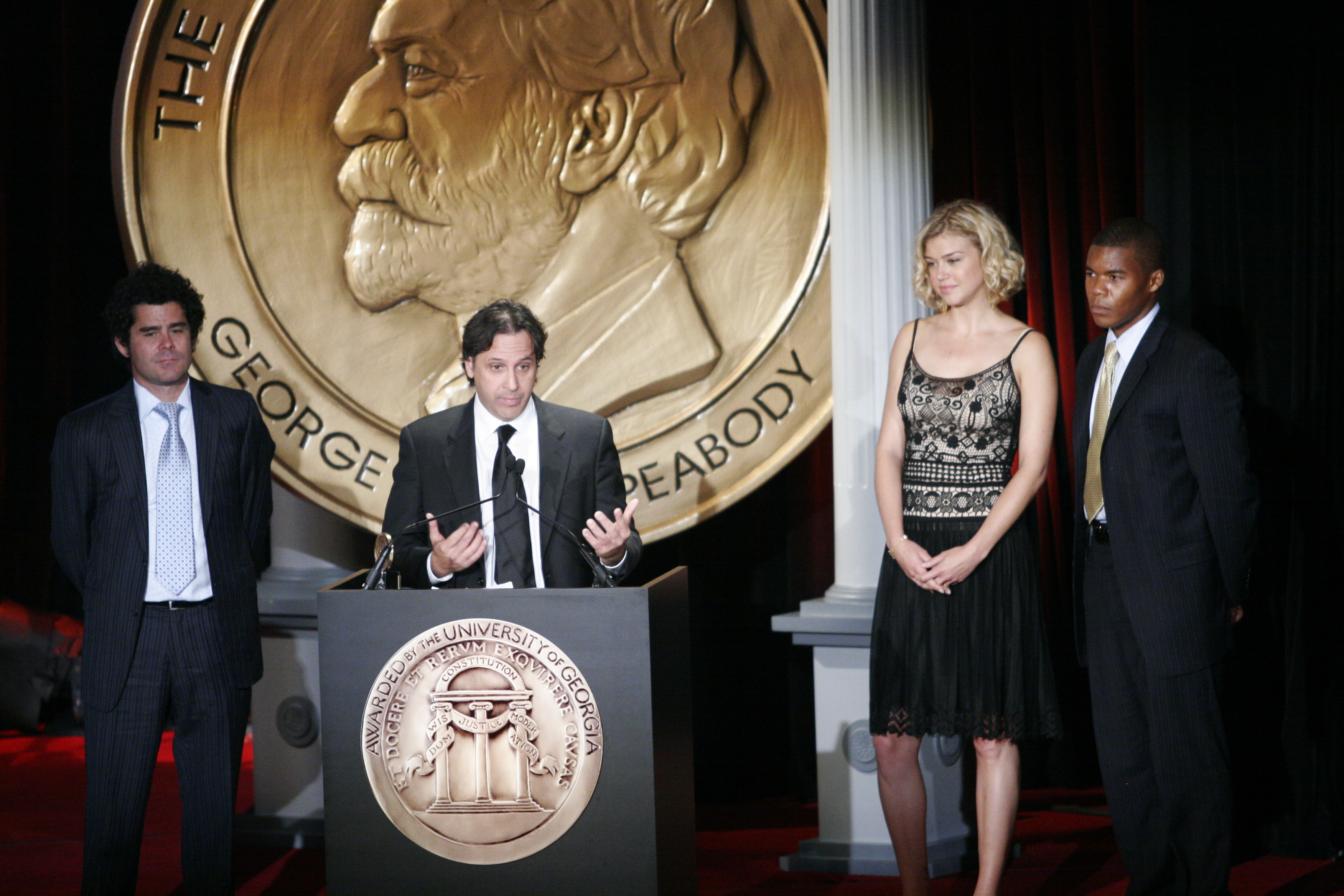 Jeffrey Reiner, Jason Katims, Adrianne Palicki and Gaius Charles, 66th Annual Peabody Awards Luncheon Waldorf=Astoria Hotel New York, NY USA June 4, 2007